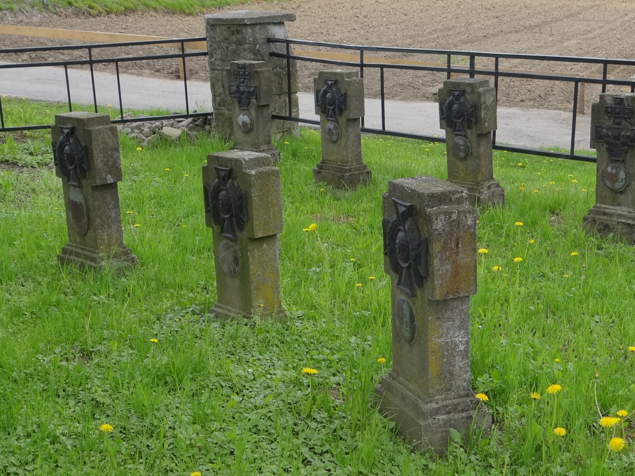 World War I Cemetery nr 157 in Dąbrówka Tuchowska